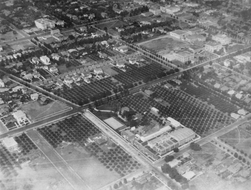 Aerial view of the Charlie Chaplin Studios, 1922.